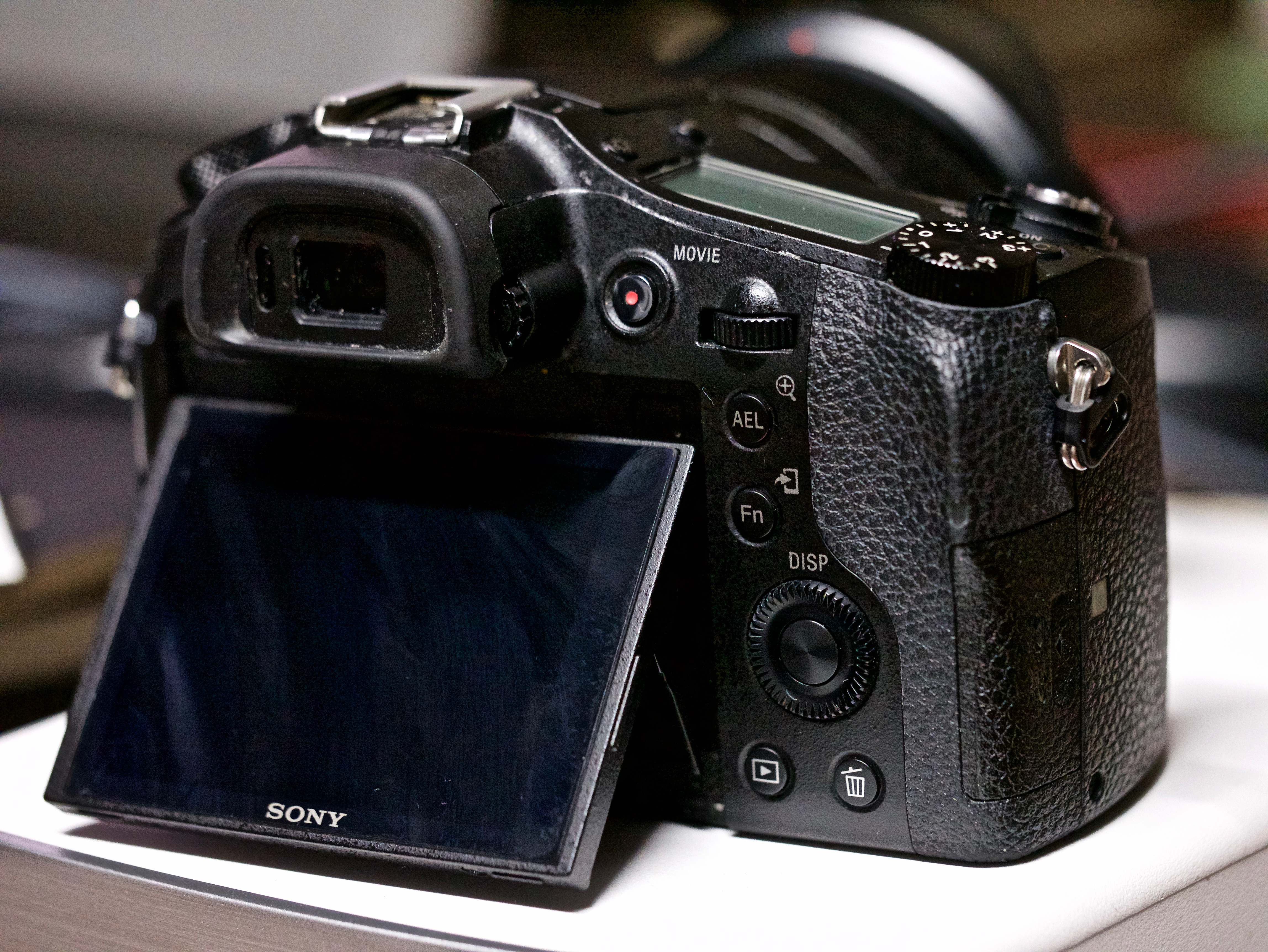 Sony Cyber-shot DSC-RX10 (back) with tilting screen.